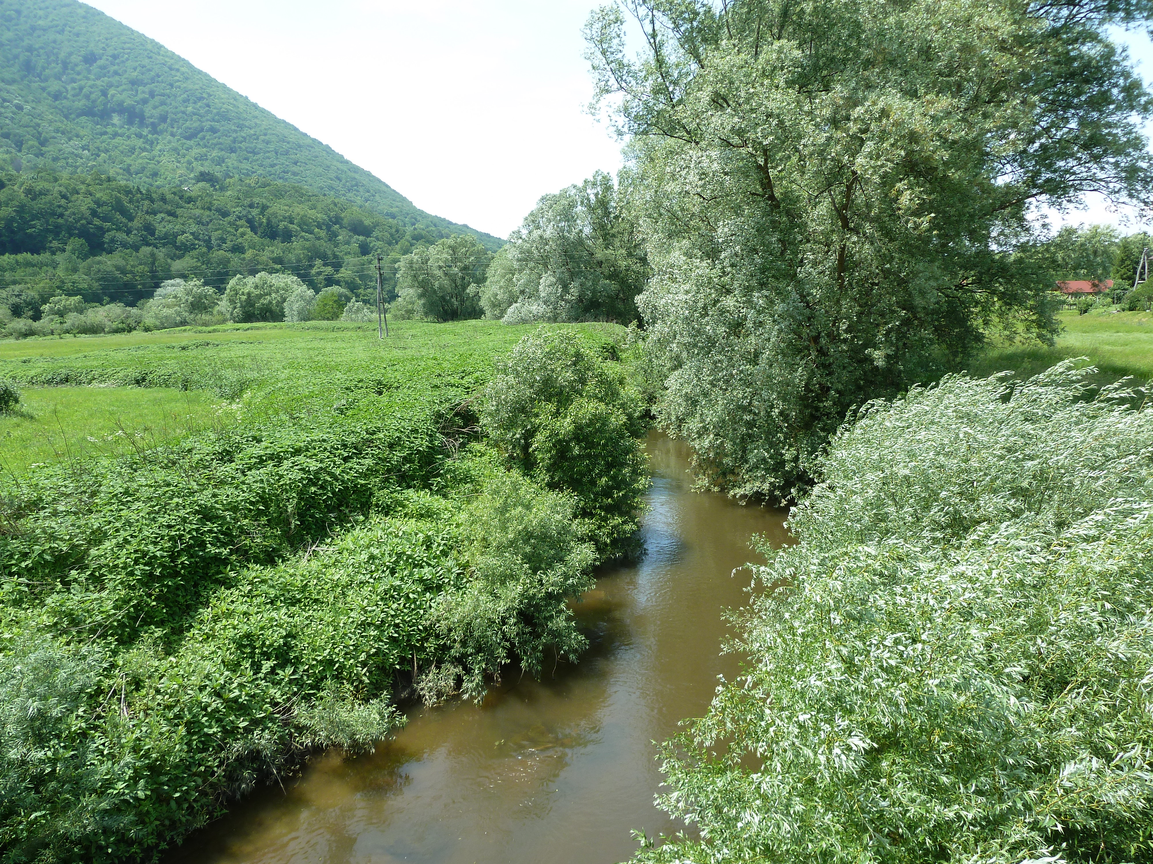 Dravinja River at Studenice